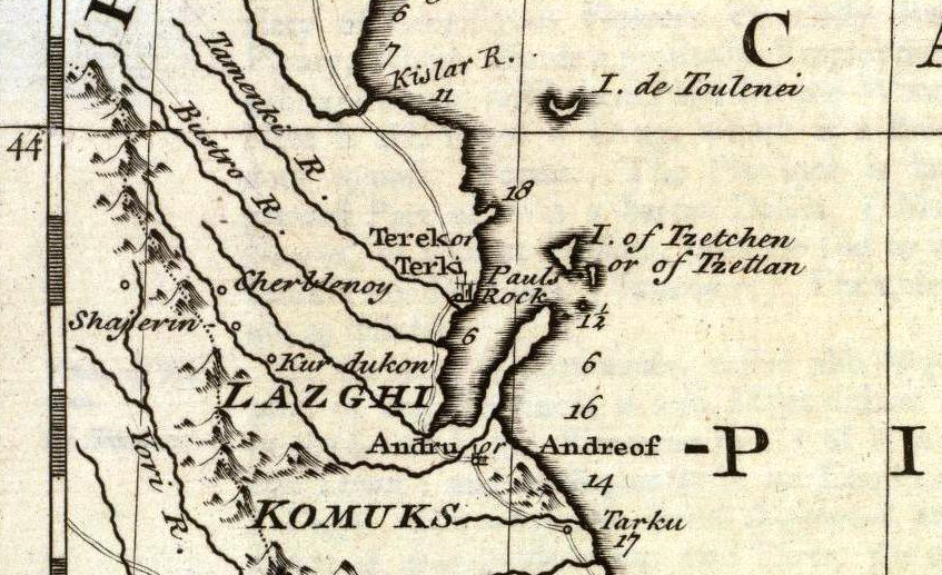 A new and accurate map of the Caspian Sea, laid down from the memoirs of Soskam Sabbus, a Georgian Prince, assisted by some late improvemets. By Emanl. Bowen. (London: Printed for William Innys, Richard Ware, Aaron Ward, J. and P. Knapton, John Clarke, T. Longman and T. Shewell, Thomas Osborne, Henry Whitridge ... M.DCC.XLVII)